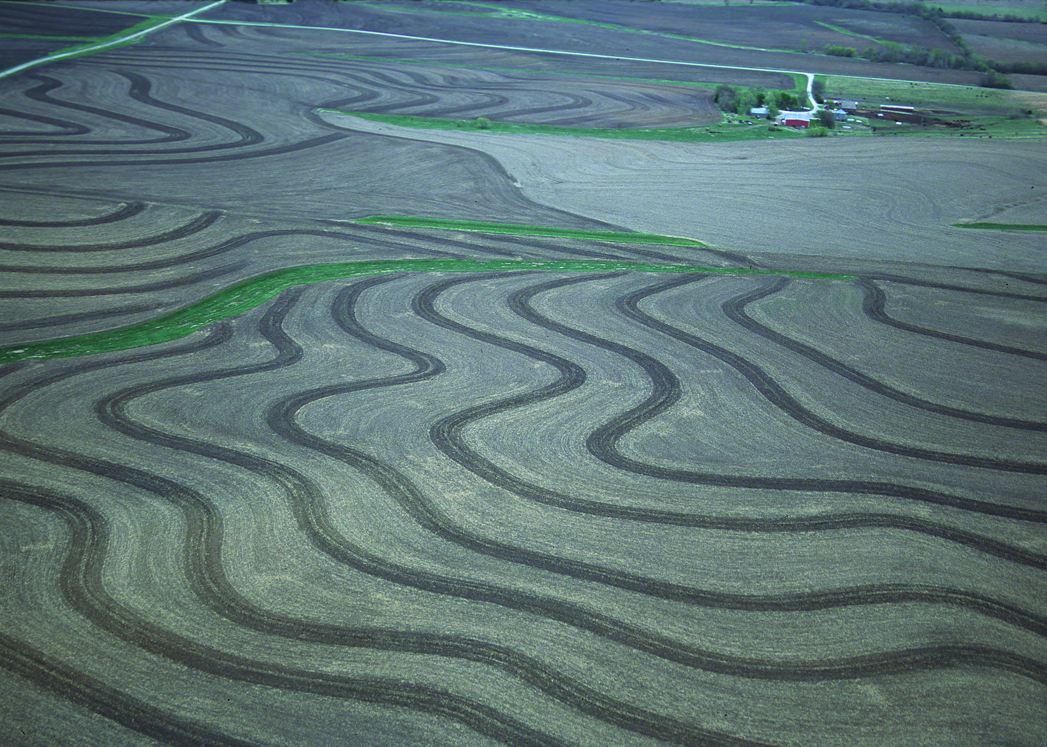 Aerial view on contour terraces and grassed waterways for erosion control. Kansas.